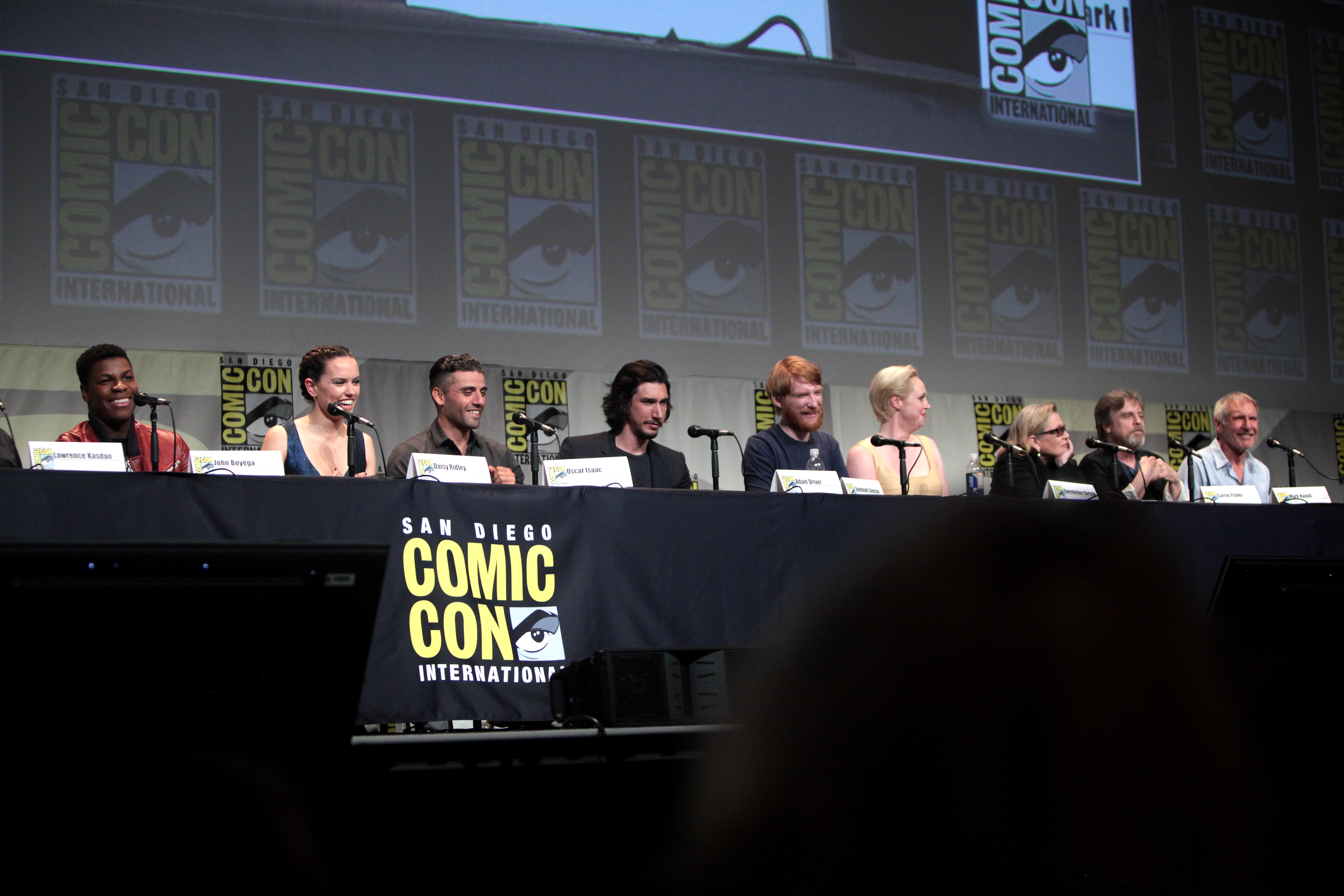 John Boyega, Daisy Ridley, Oscar Isaac, Adam Driver, Domhnall Gleeson, Gwendoline Christie, Carrie Fisher, Mark Hamill and Harrison Ford speaking at the 2015 San Diego Comic Con International, for "Star Wars: The Force Awakens", at the San Diego Convention Center in San Diego, California.